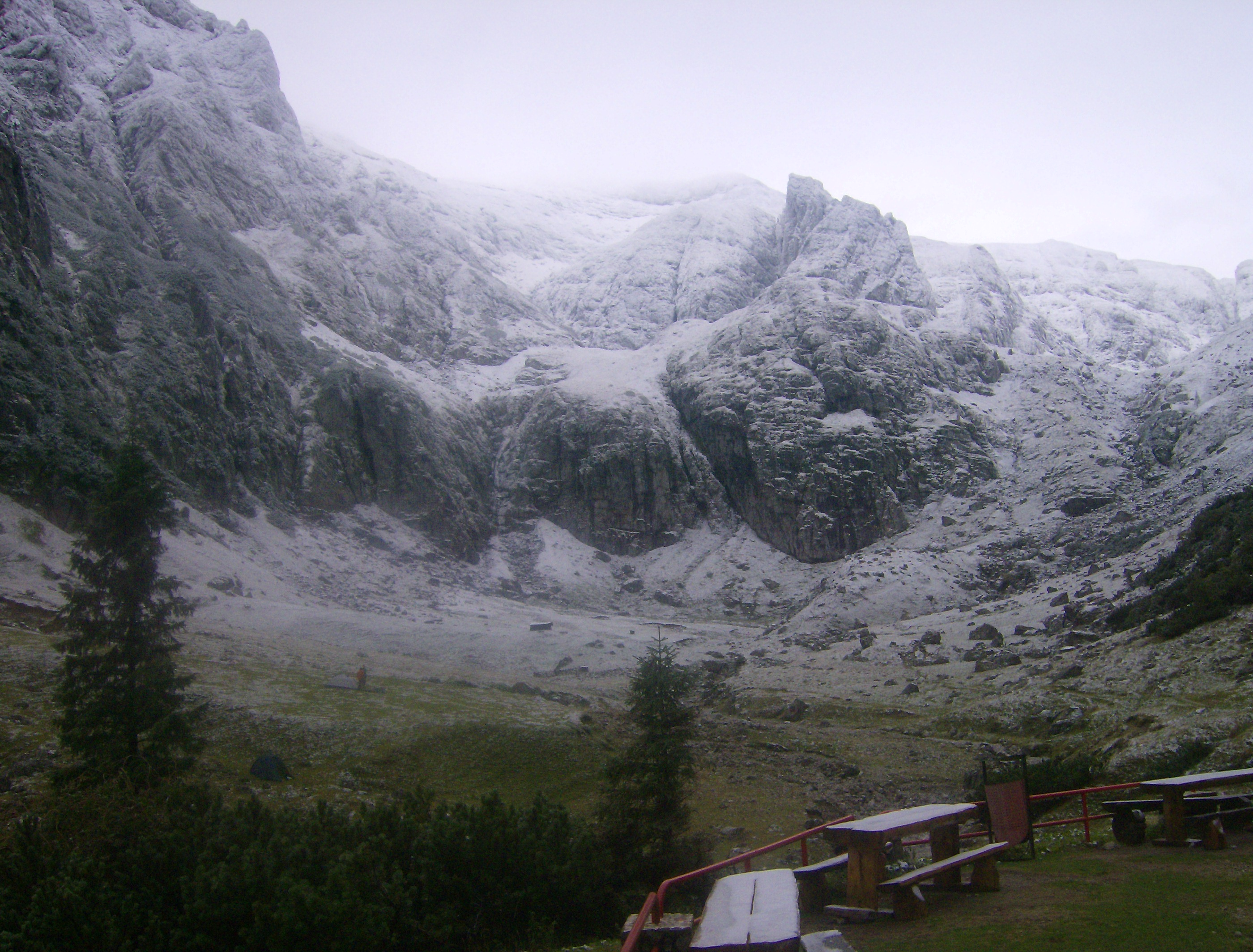 Malaiesti Valley in late autumn